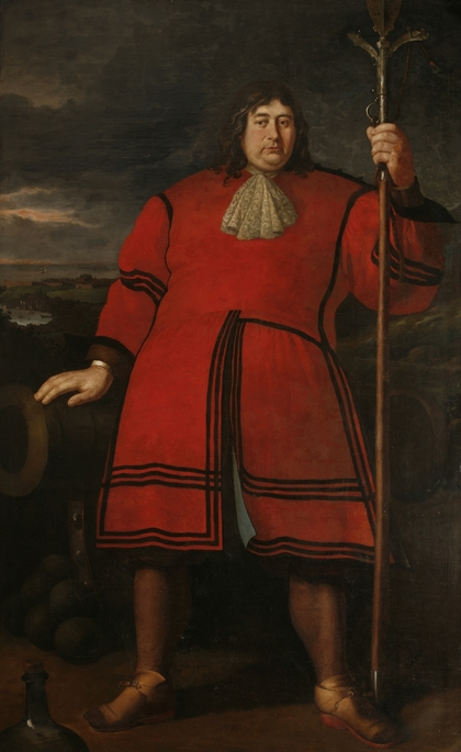 Portrait of Anthony Payne; Payne was the giant servant of Sir Bevil Grenville